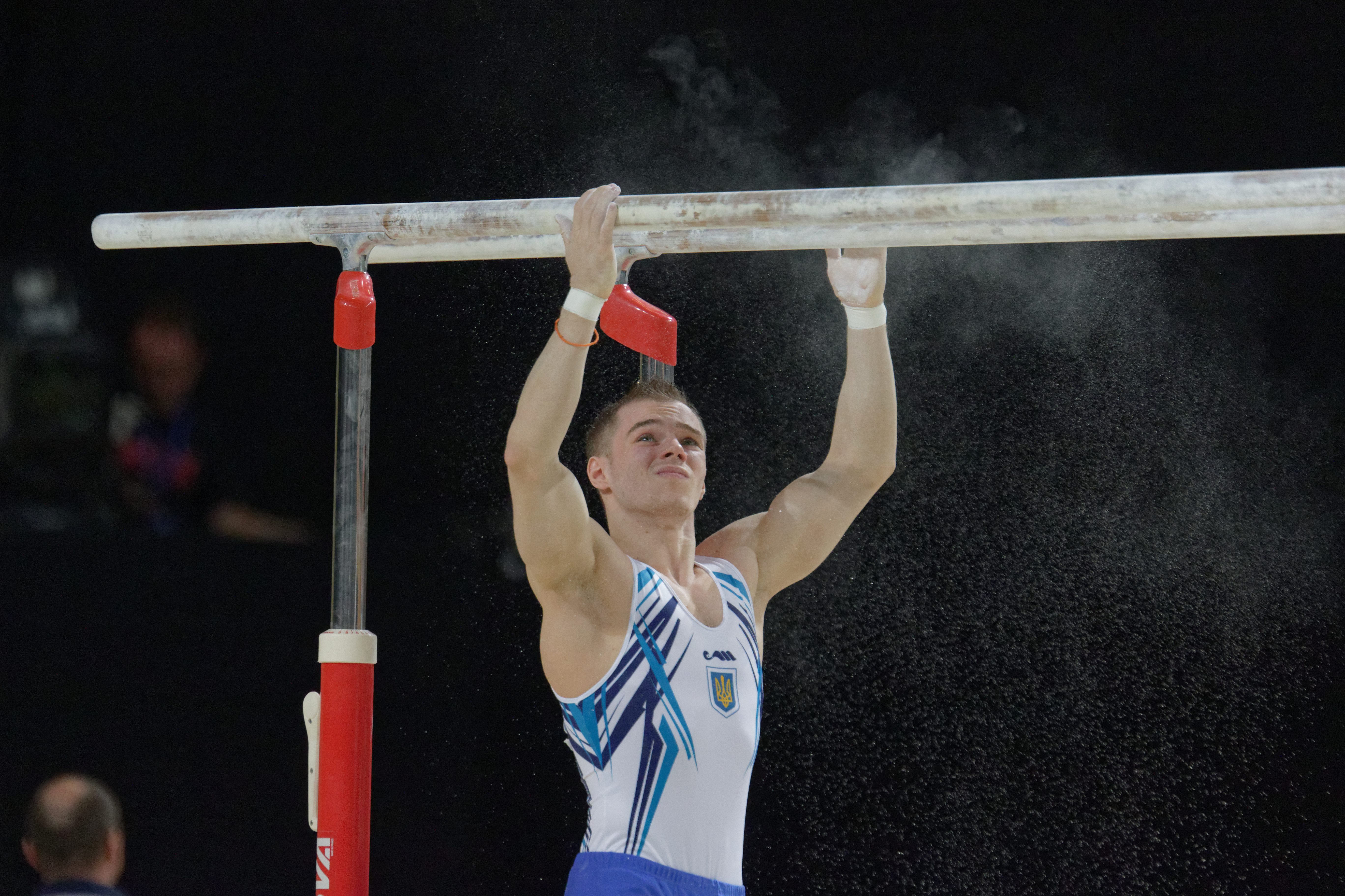 2015 European Artistic Gymnastics Championships.